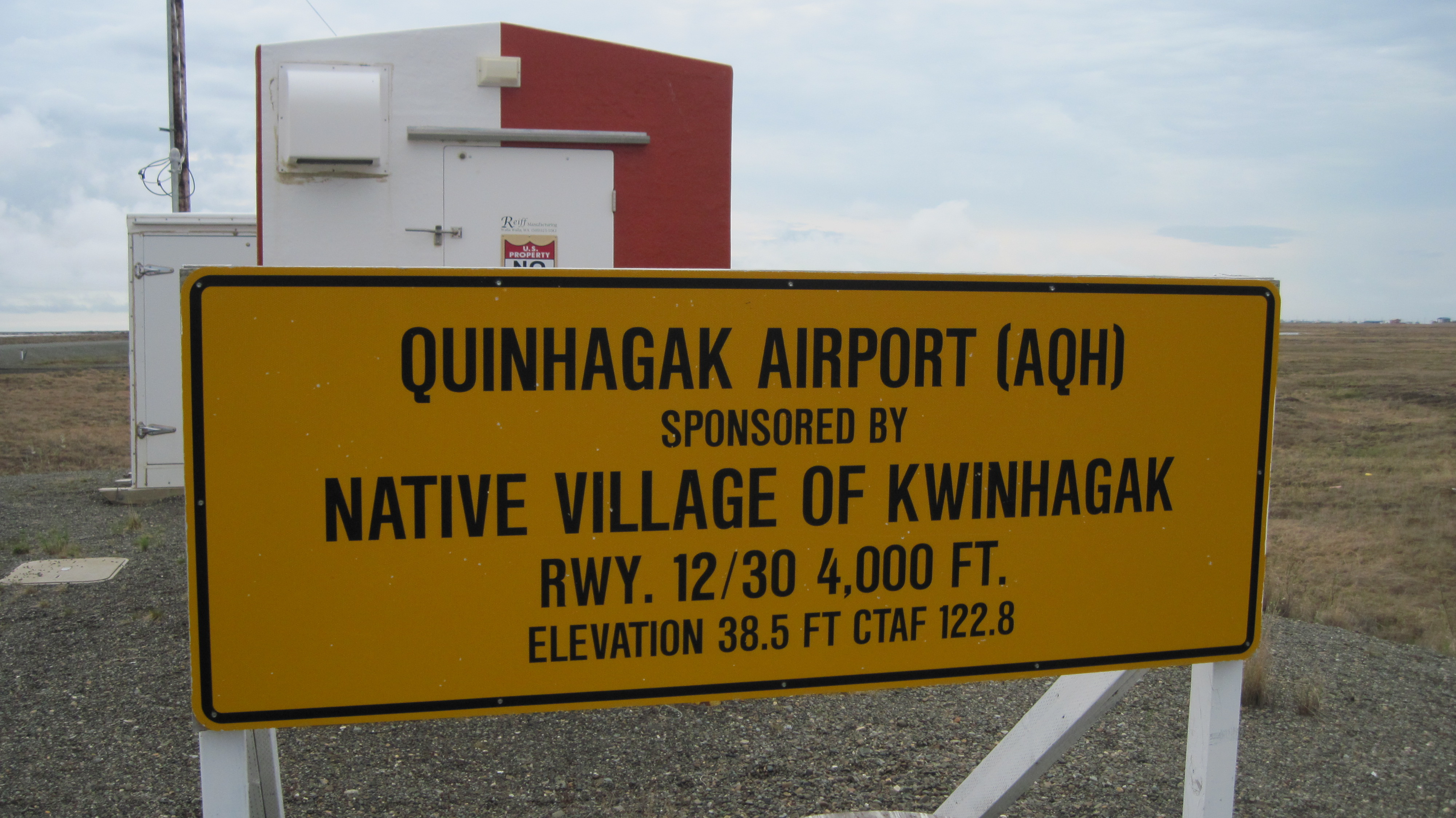 Sign at the Quinhagak airport in the Alaska native village of Kwinhagak, Alaska (photo taken May 2011).